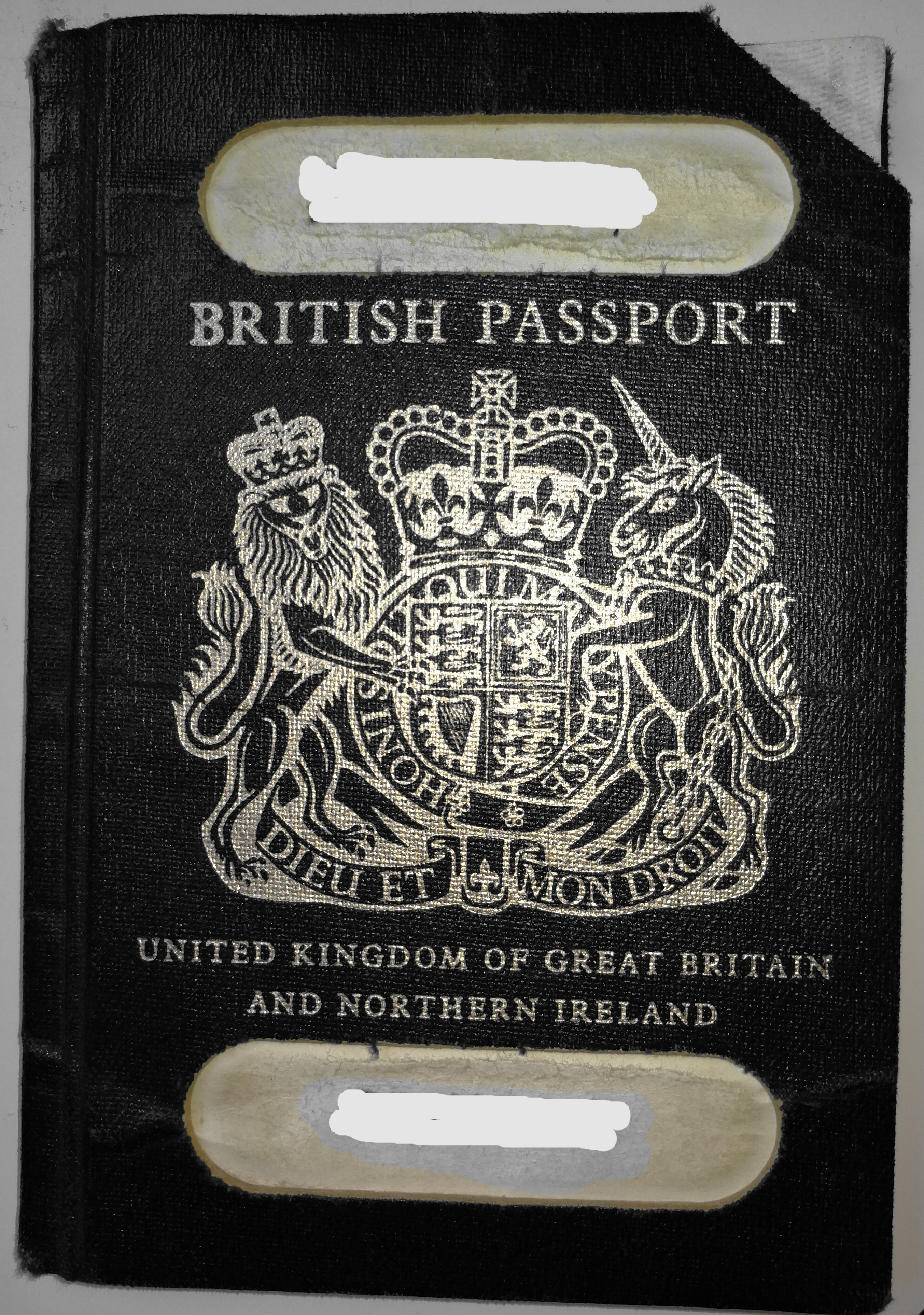 UK Passport of the last black design before the 1988 change to burgundy. This one was actually issued in 1991 in Belfast.